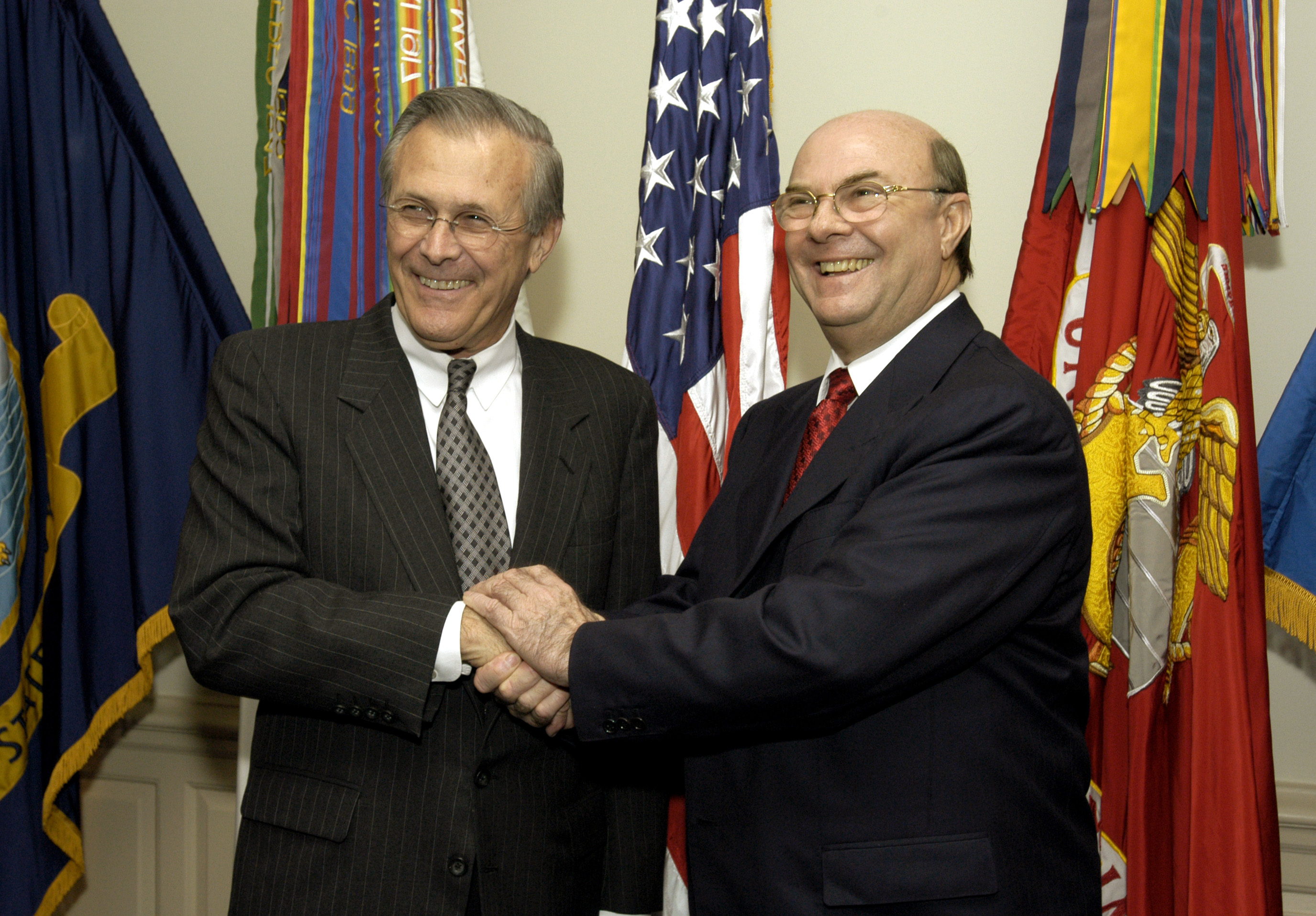 Secretary of Defense Donald H. Rumsfeld (left) and Dominican Republic President Rafael Hipolito Mejia Dominguez pose for photos in the Pentagon on May 21, 2003, before sitting down to discuss a broad range of bilateral and regional security issues.